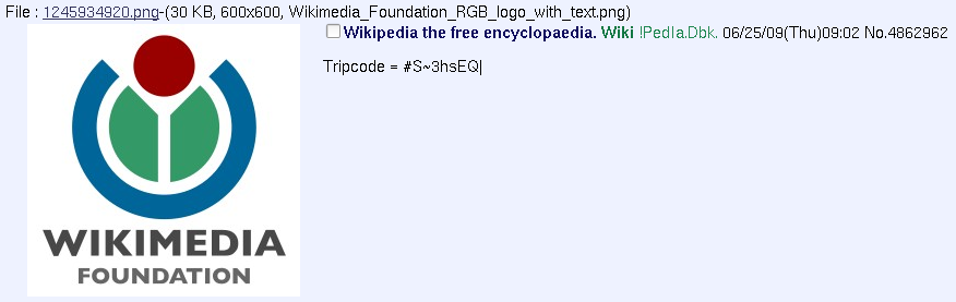 The board is /g/ on